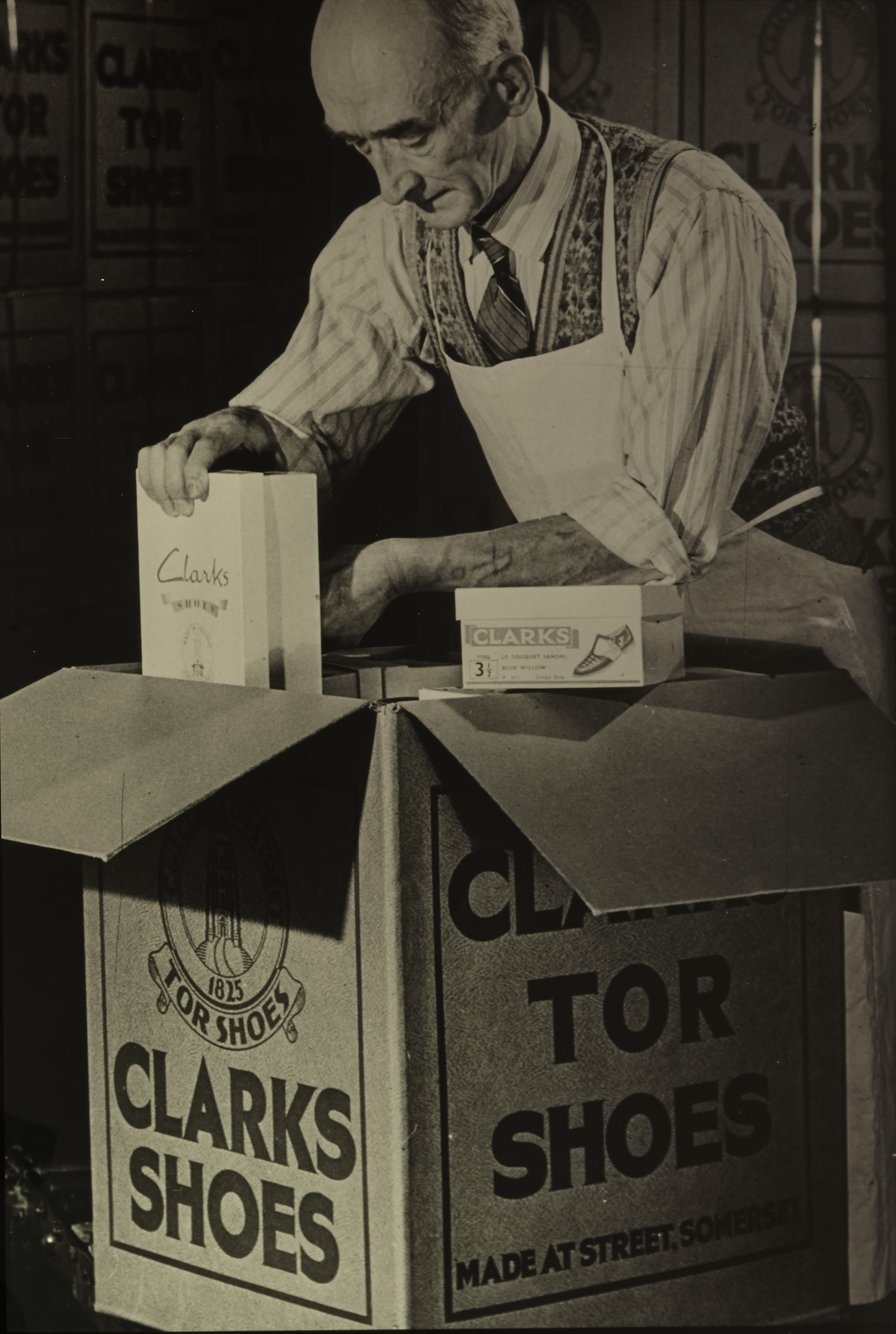 A black and white photograph of a man packing Clarks Tor Shoes into a box.